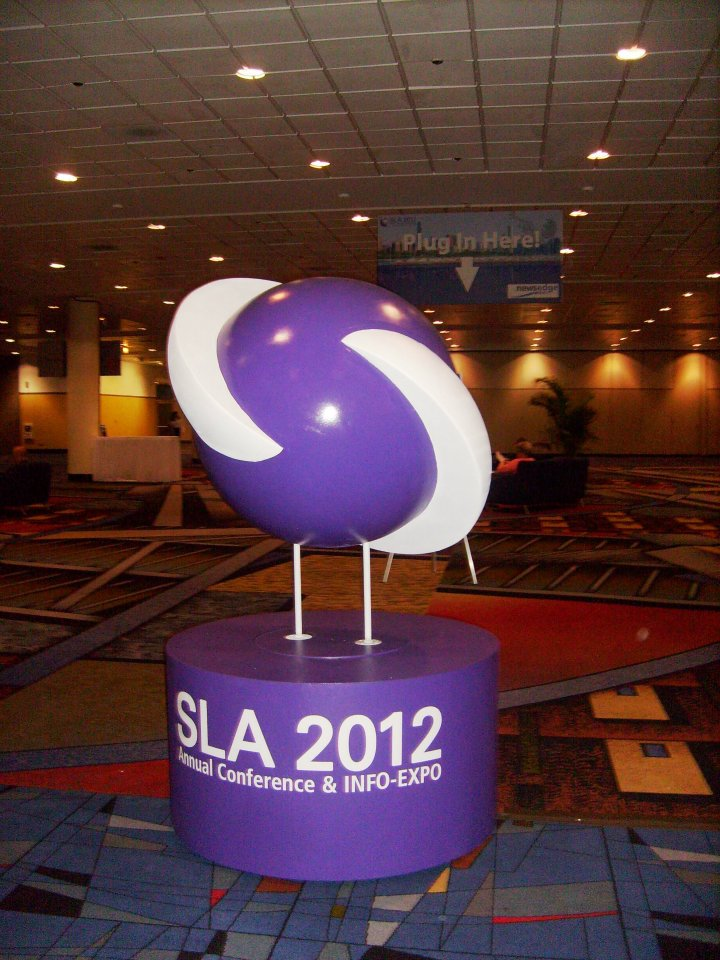 Special Libraries Association (SLA) logo at the annual conference and INFO-EXPO in 2012 in Chicago.